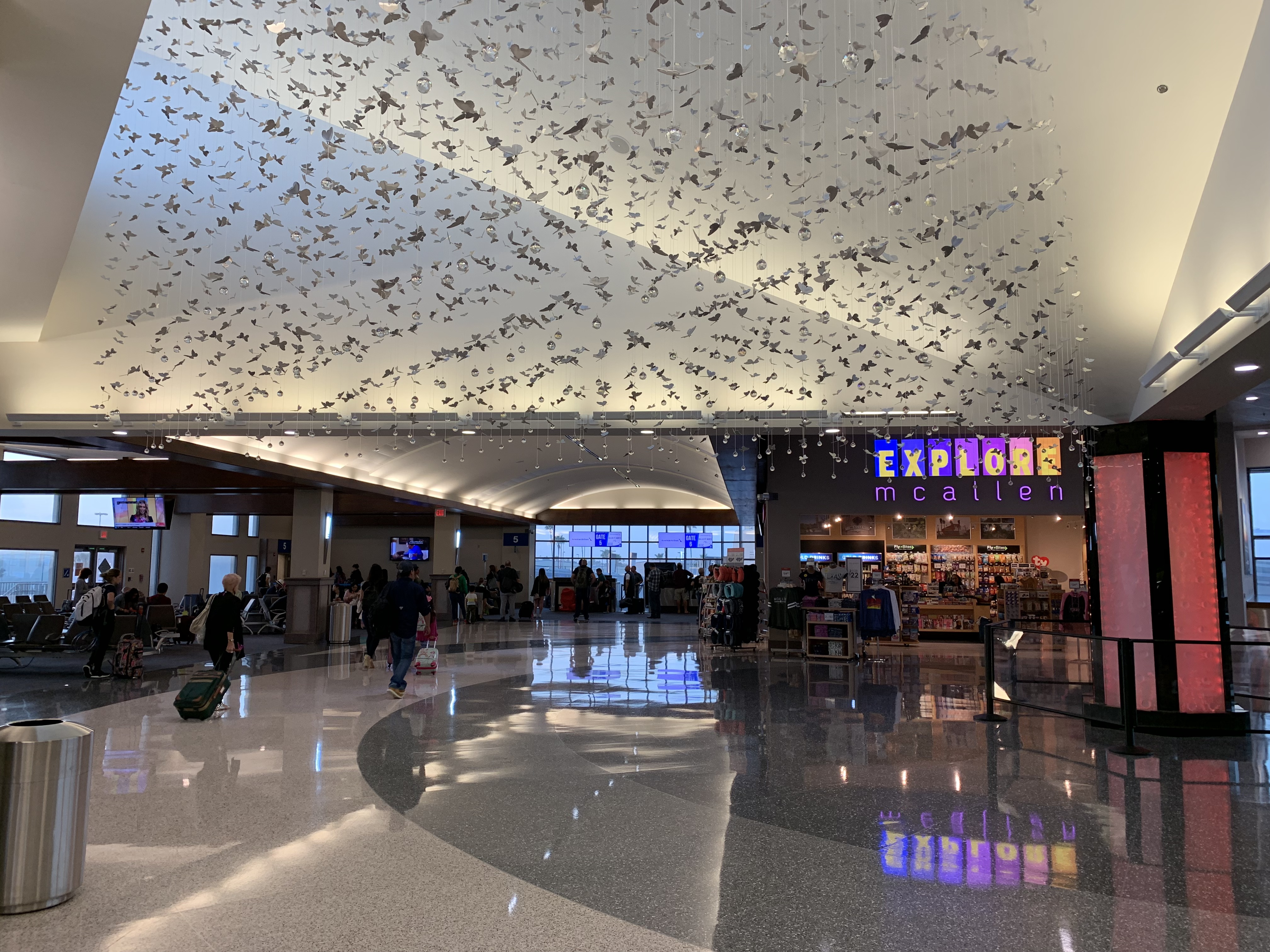 The waiting area at McAllen International Airport